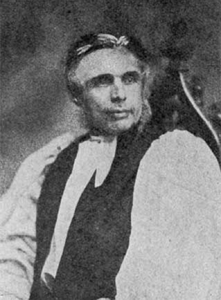 Reverend Thomas Nettleship Staley (1823-1898), the first Anglican bishop of Honolulu, in a portrait published in Henry B. Restarick's 1924 book, Hawaii, 1778—1920, from the Viewpoint of a Bishop.